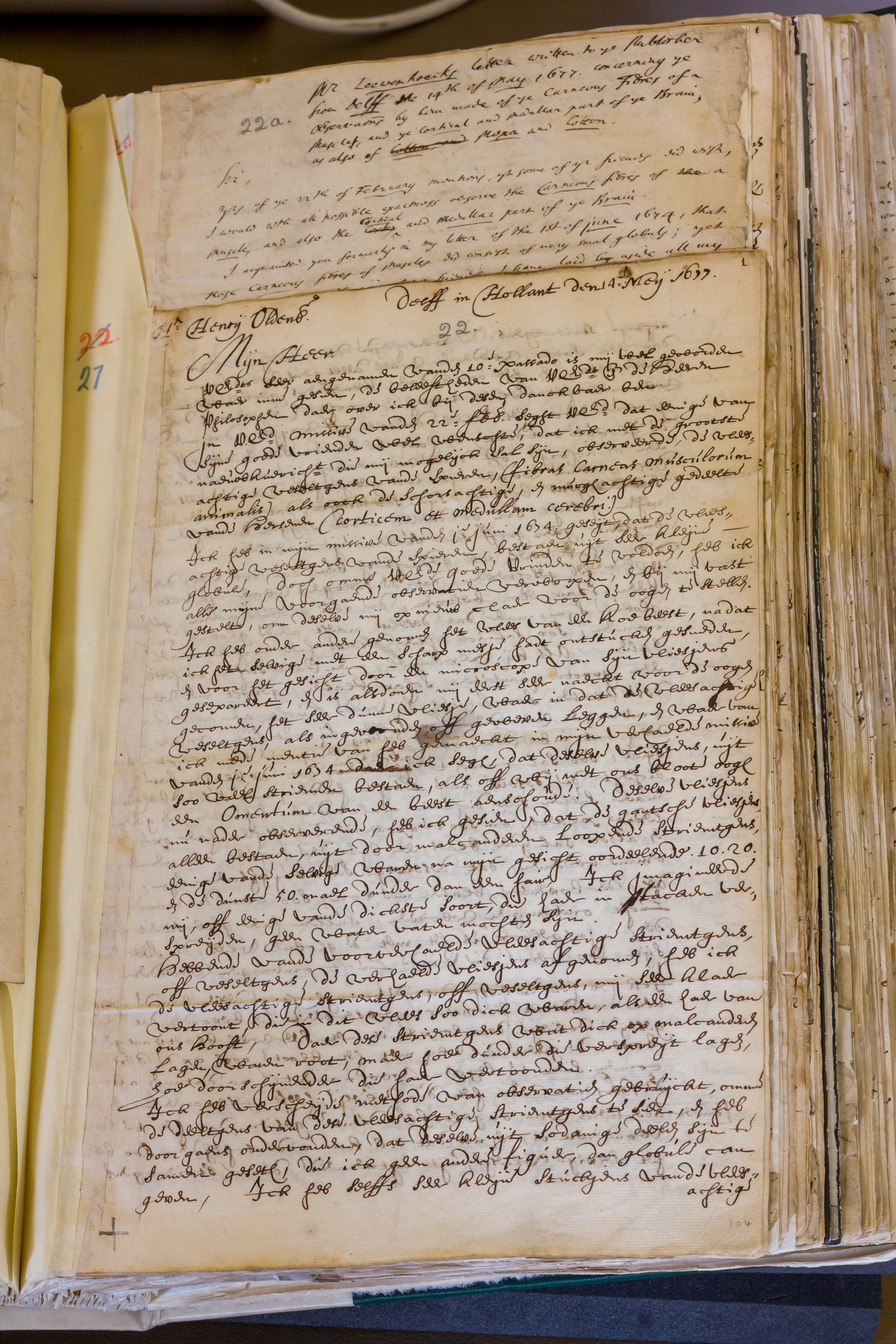 Dutch microscopist Van Leeuwenhoek wrote 190 letters to the Royal Society between the years 1673 and 1723. The letters, written in Dutch with some translated into English and Latin, are bound in 4 volumes (EL/L1-EL/L4). Leeuwenhoek was elected an FRS in 1680. Catalogue entry.